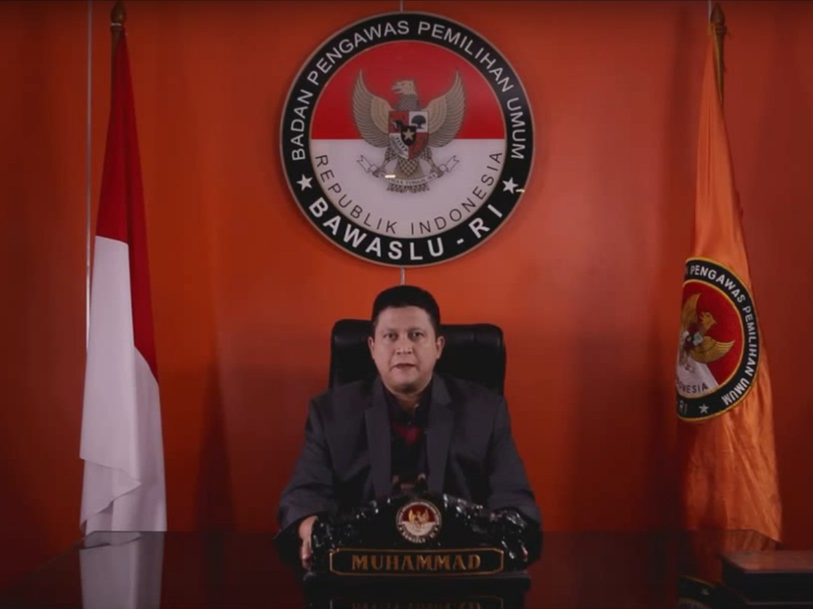 Prof. Dr. Muhammad Al Hamid, S.IP., M.Si., chairman of Bawaslu RI (Badan Pengawas Pemilihan Umum Republik Indonesia; Election Supervisory Board of the republic of Indonesia) period 2012–2017.